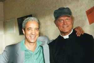 Kadour Naimi actor in the italian television series DON MATTEO, episode Donne e buoi, dai paesi tuoi (Women and cows, take them from your village), with Terence Hill, 2001.